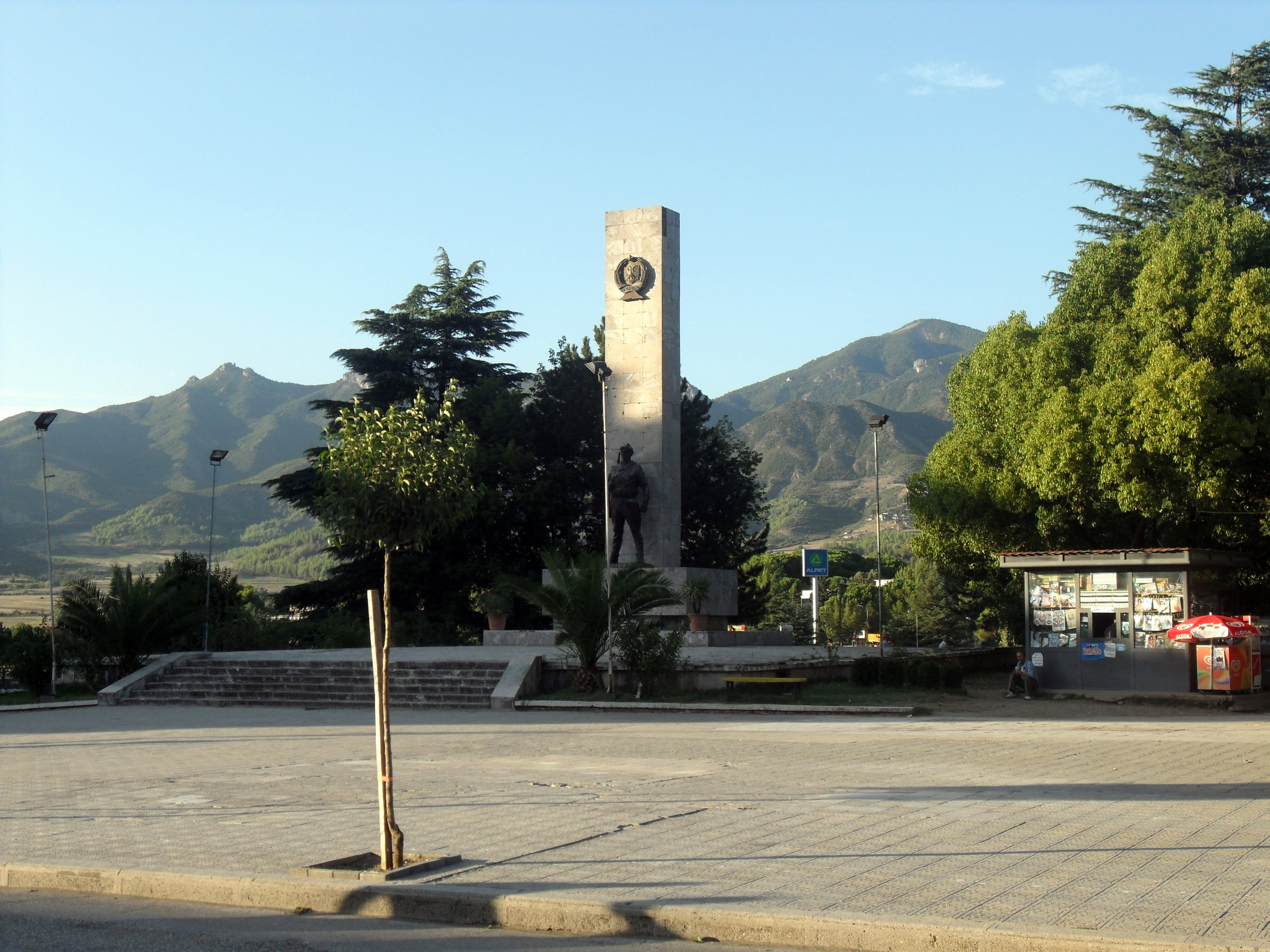 Monument in Përmet